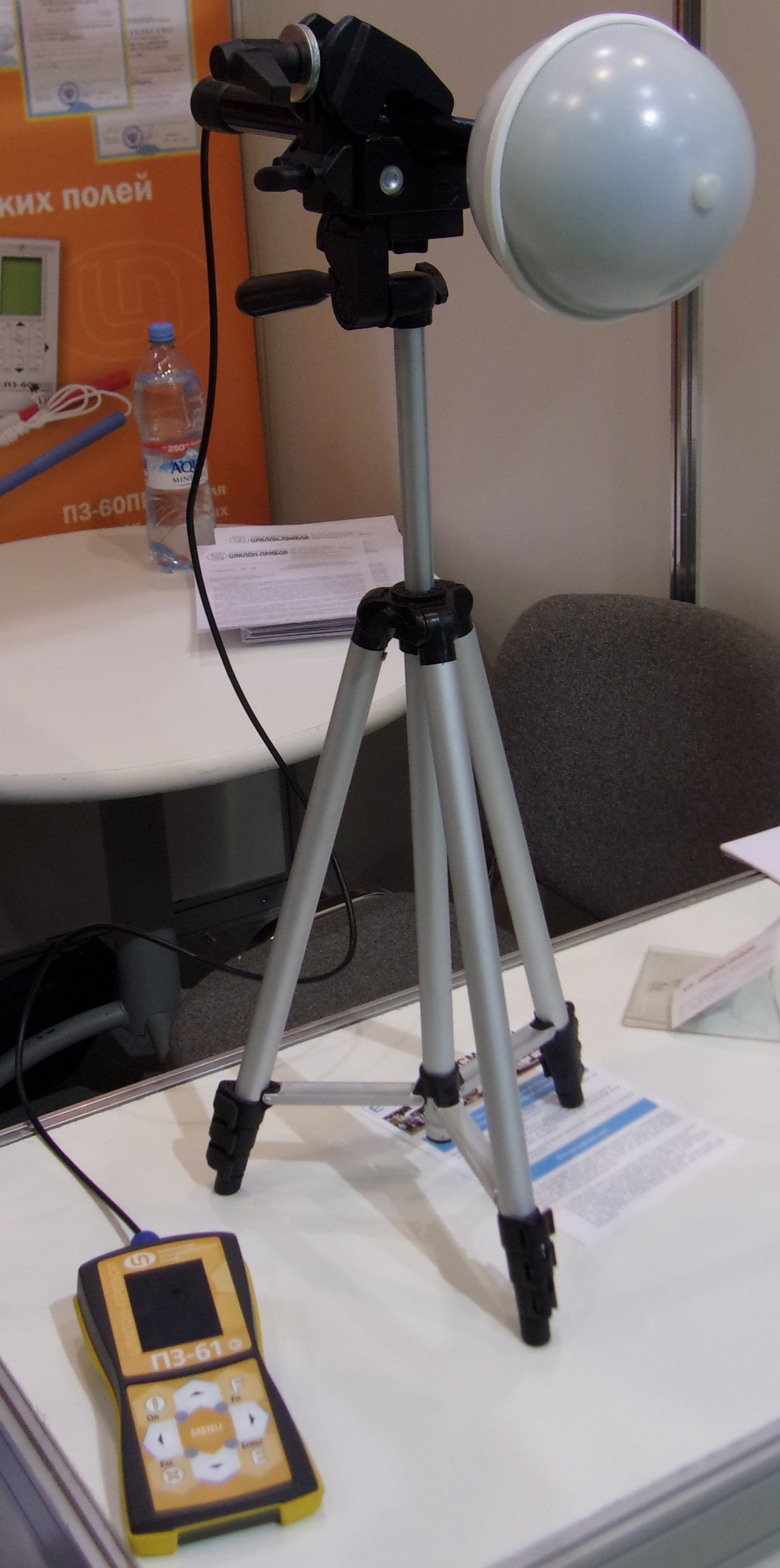 The instrument for the assessment of electric fields in the workplace to determine working conditions.